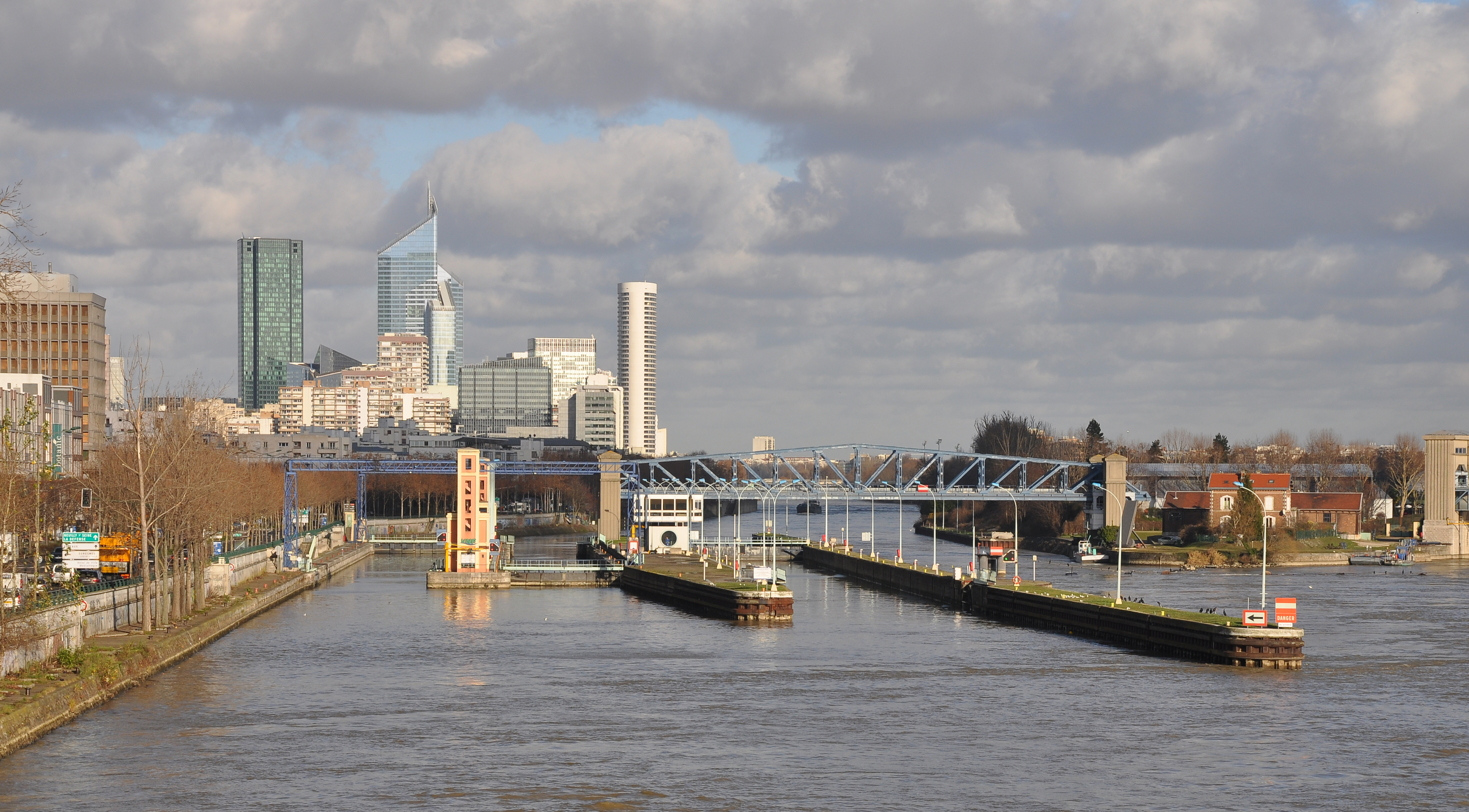 Canal lock in Suresnes, Hauts-de-Seine department of France. In the background the buildings of La Défense.